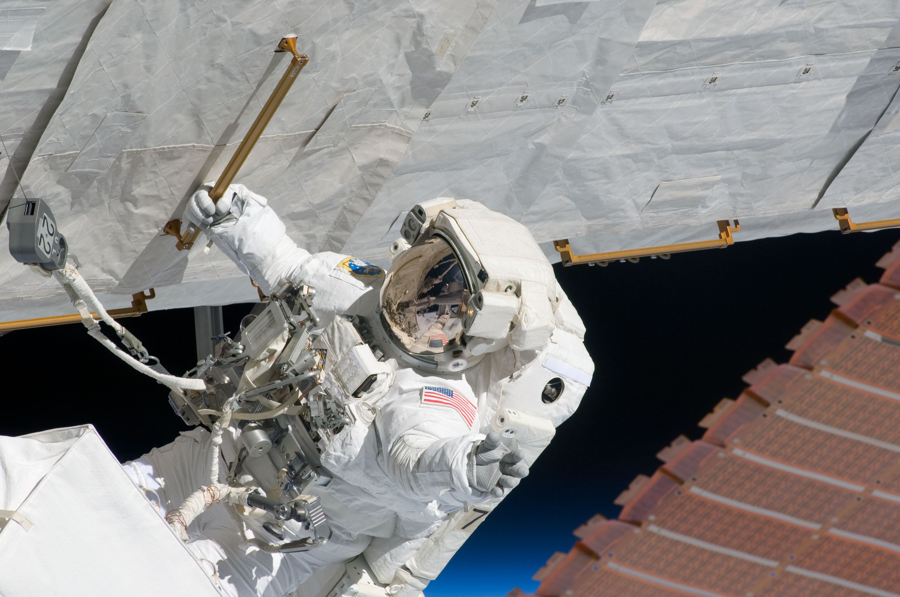 Astronaut Ron Garan, STS-124 mission specialist, participates in the mission's third scheduled session of extravehicular activity (EVA) as construction and maintenance continue on the International Space Station. During the six-hour, 33-minute spacewalk, Garan and astronaut Mike Fossum (out of frame), mission specialist, exchanged a depleted Nitrogen Tank Assembly for a new one, removed thermal covers and launch locks from the Kibo laboratory, reinstalled a repaired television camera onto the space station's left P1 truss, and retrieved samples of a dust-like substance from the left Solar Alpha Rotary Joint for analysis by experts on the ground.